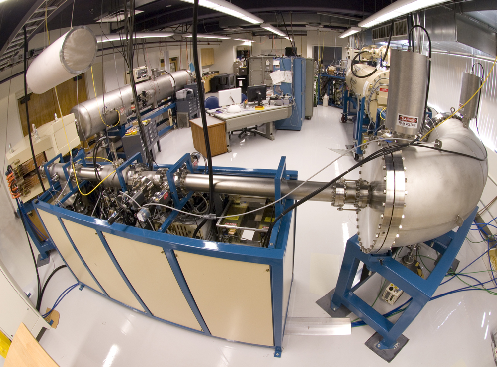 Secondary Ion Mass Spectrometry (SIMS)e is one of the instruments used for the characterization of the atoms of solar wind in the collectors of Genesis